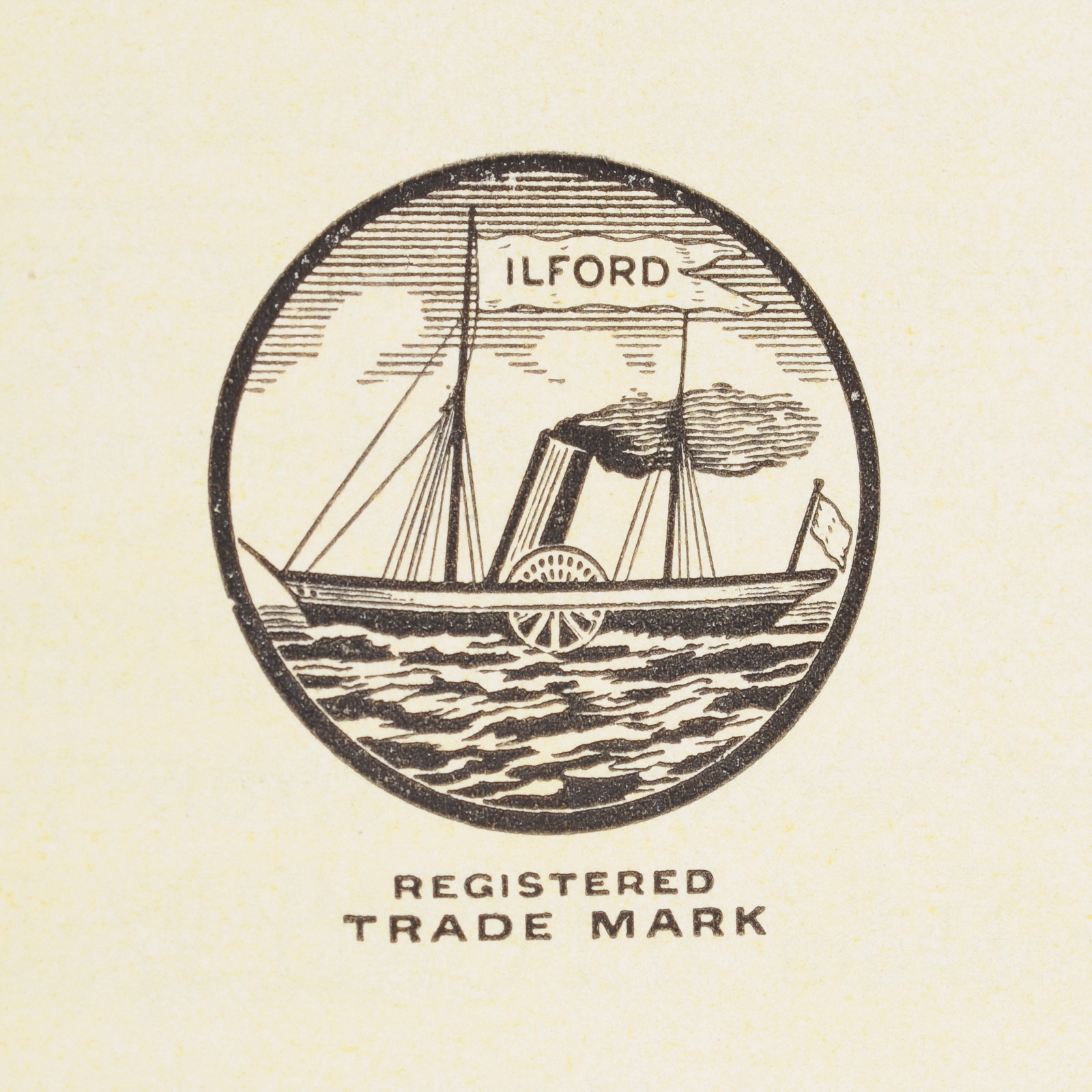 Ilford company logo.